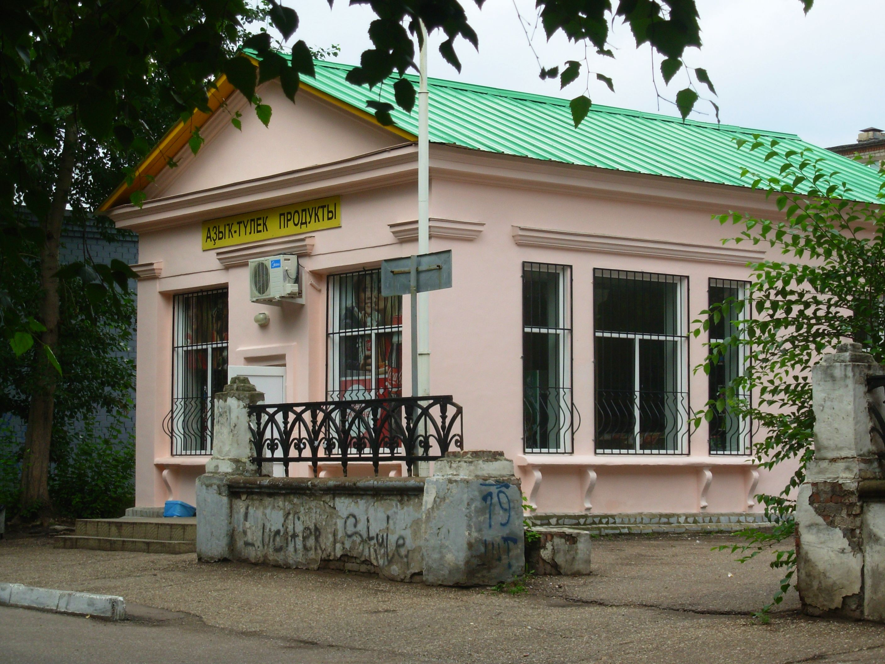 street